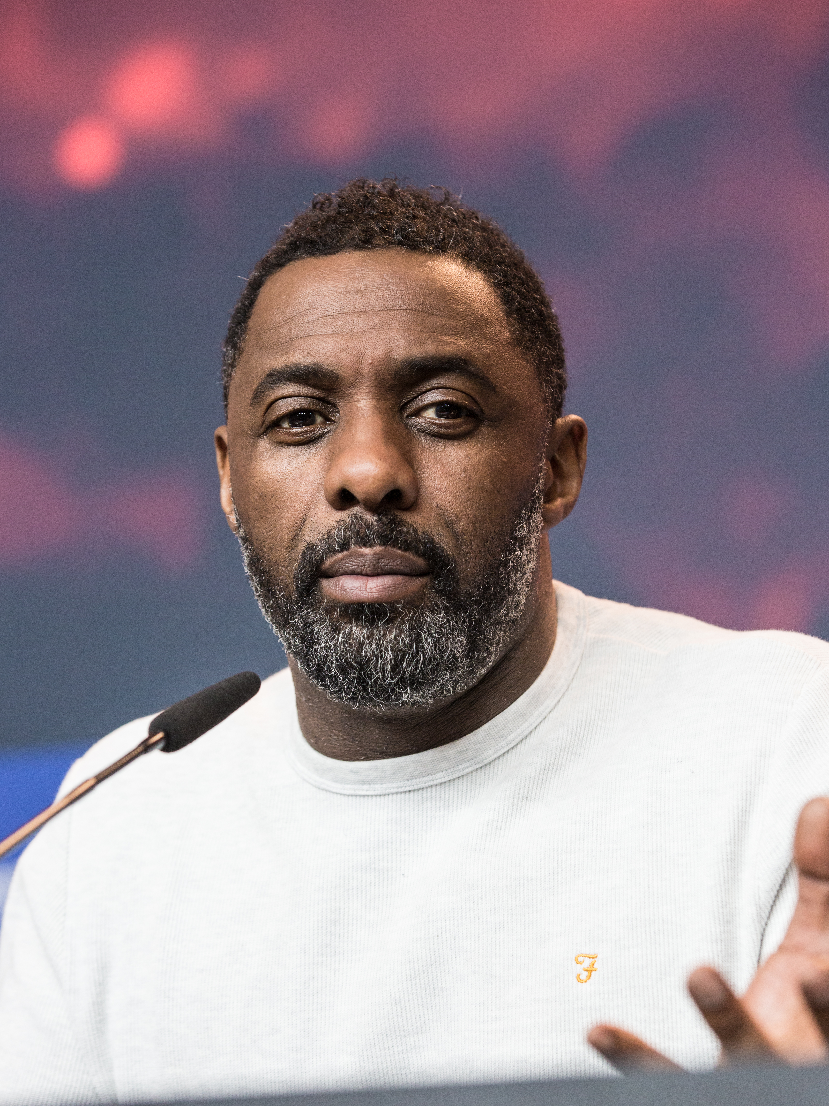 Actor and director Idris Elba at the Berlinale 2018